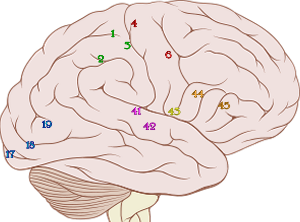 Some Brodmann areas in a lateral view of the human brain. In red, primary motor cortex; in green, primary sensitive cortex; in blue, visual cortex; in purple, acoustic cortex; in yellow, taste cortex; in orange, language cortex.